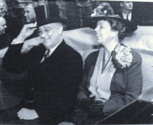 This photograph shows Franklin and Eleanor Roosevelt riding in a car, November 1935.